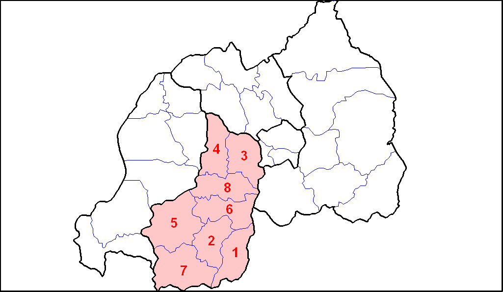 South Province, Rwanda with numbered districts